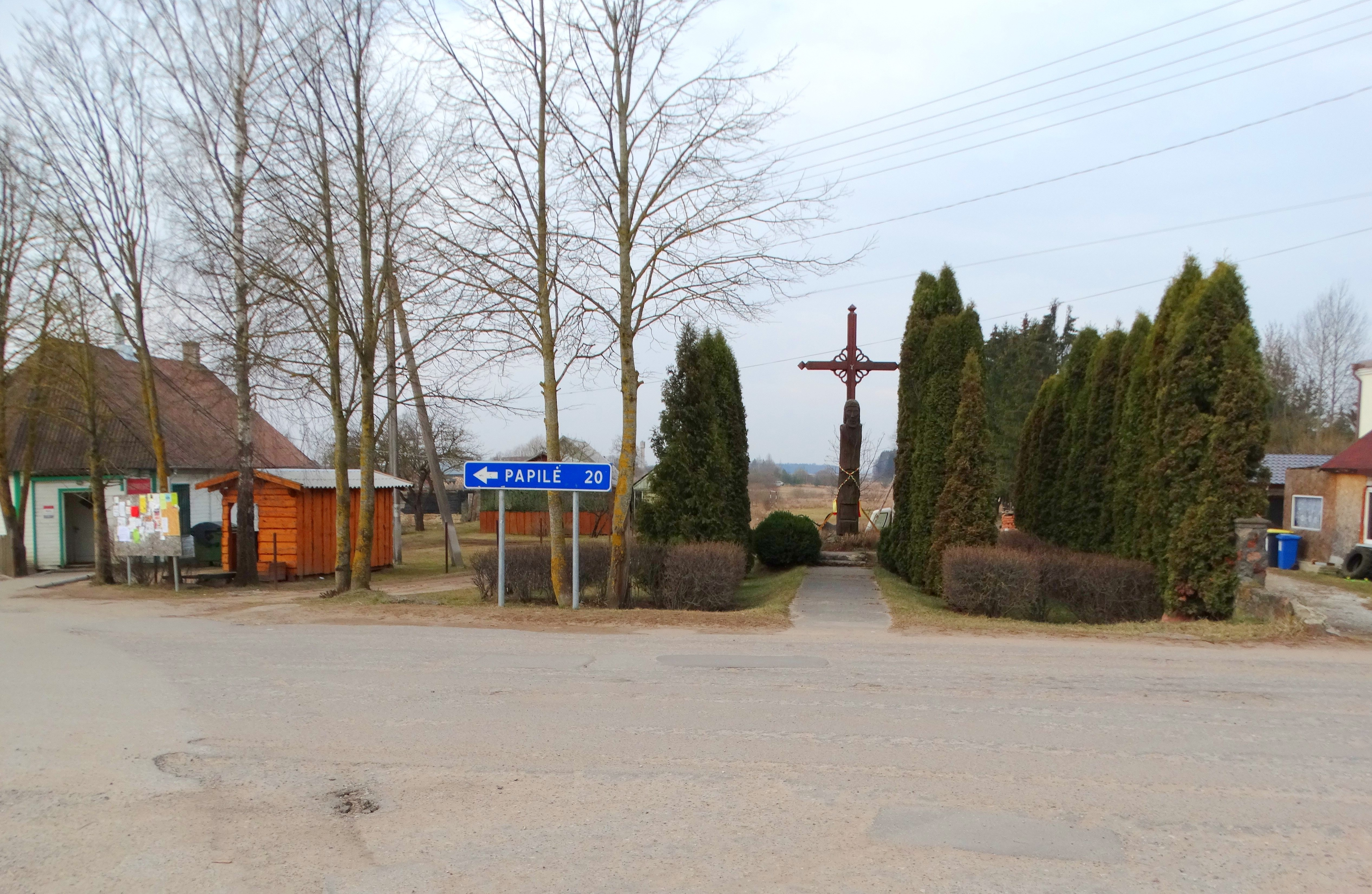 Kruopiai, Akmenė district, Lithuania